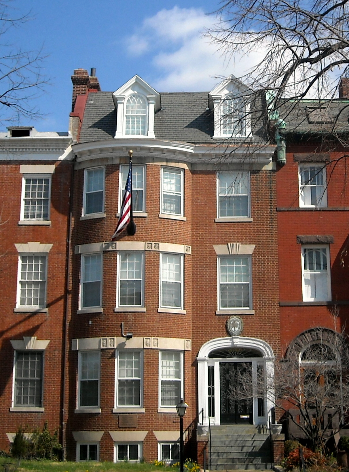 The National Society of the Daughters of the American Colonists headquarters (since 1960) located at 2205 Massachusetts Avenue, NW in the Sheridan-Kalorama neighborhood of Washington, D.C. Constructed in 1895, the Colonial Revival building is a contributing property to the Sheridan-Kalorama Historic District and the Massachusetts Avenue Historic District. Its 2009 property value is $1,670,300. Previous owners include Senator Frank Putnam Flint, Oliver Hazard Perry Johnson (vice president of the National Metropolitan Bank), and the Embassy of Iraq.